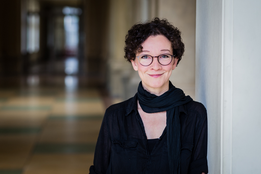 Katrin Seidel (then Katrin Möller), politician from Germany, member of Abgeordnetenhaus of Berlin (as of 2017)